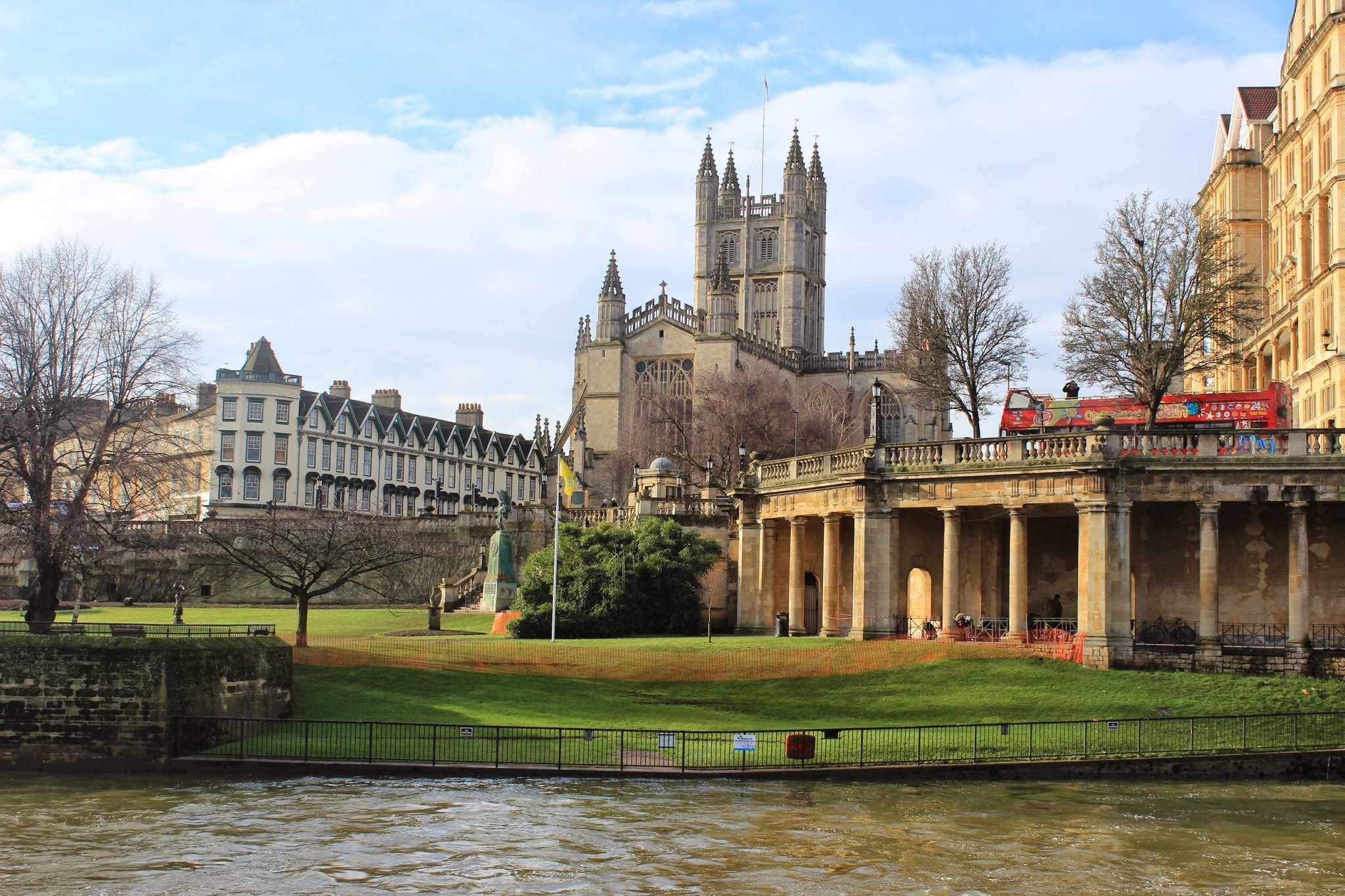 Bath Abbey from River AvonBahasa Indonesia: Biara Bath dari Sungai Avon